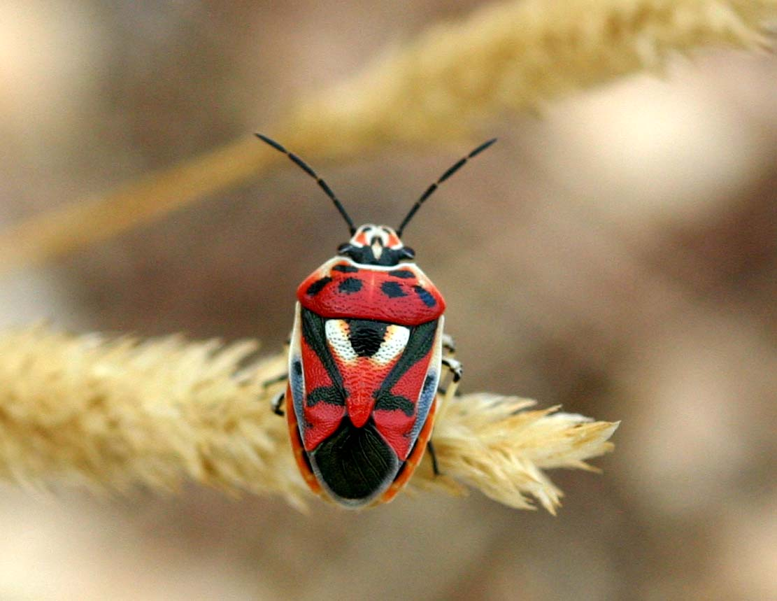 Macro picture of an insect (Eurydema ornatum)